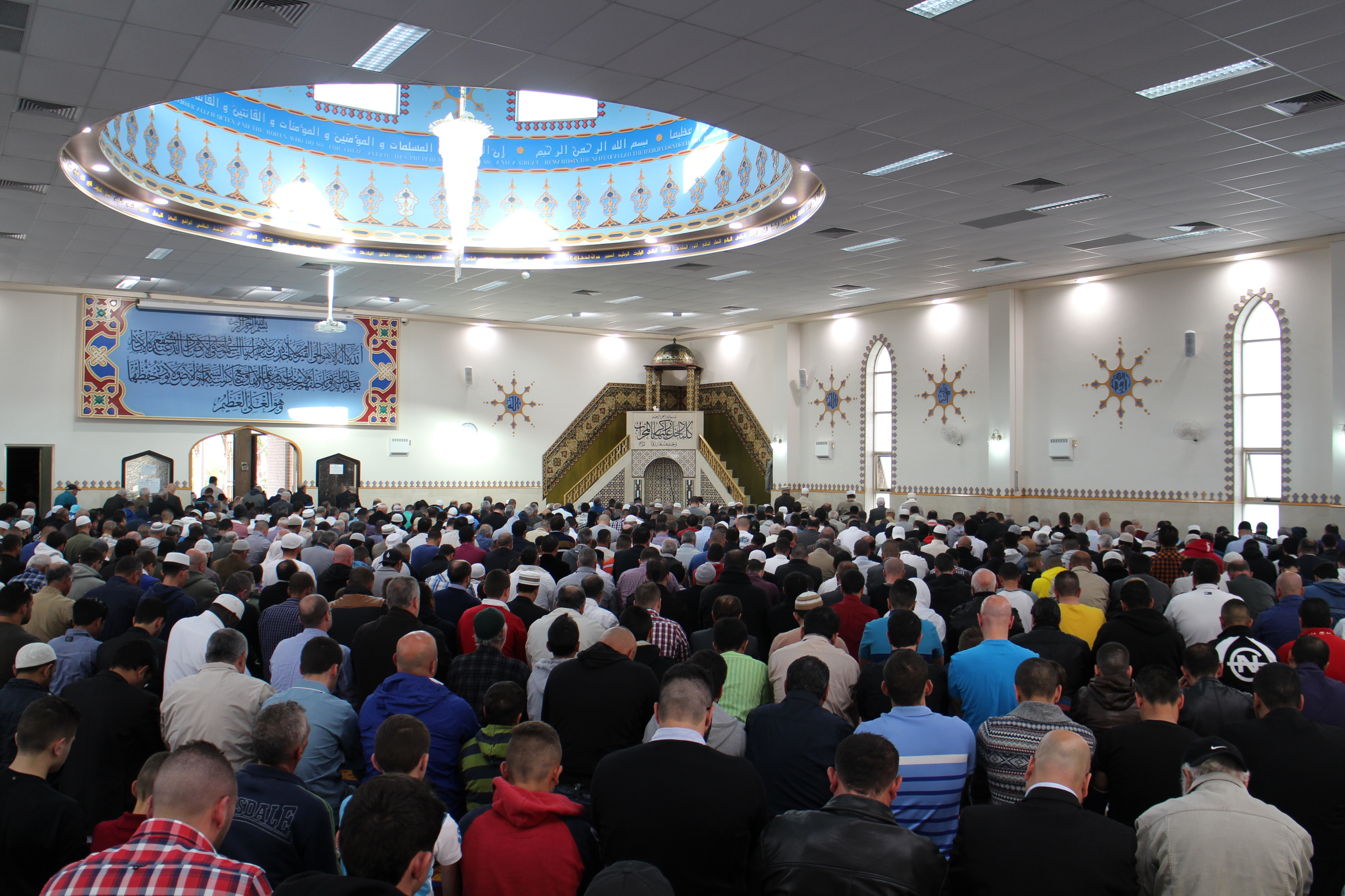 Eid prayer at Lakemba Mosque, reported to be Australia's largest mosque, which regularly features around 40,000 people.